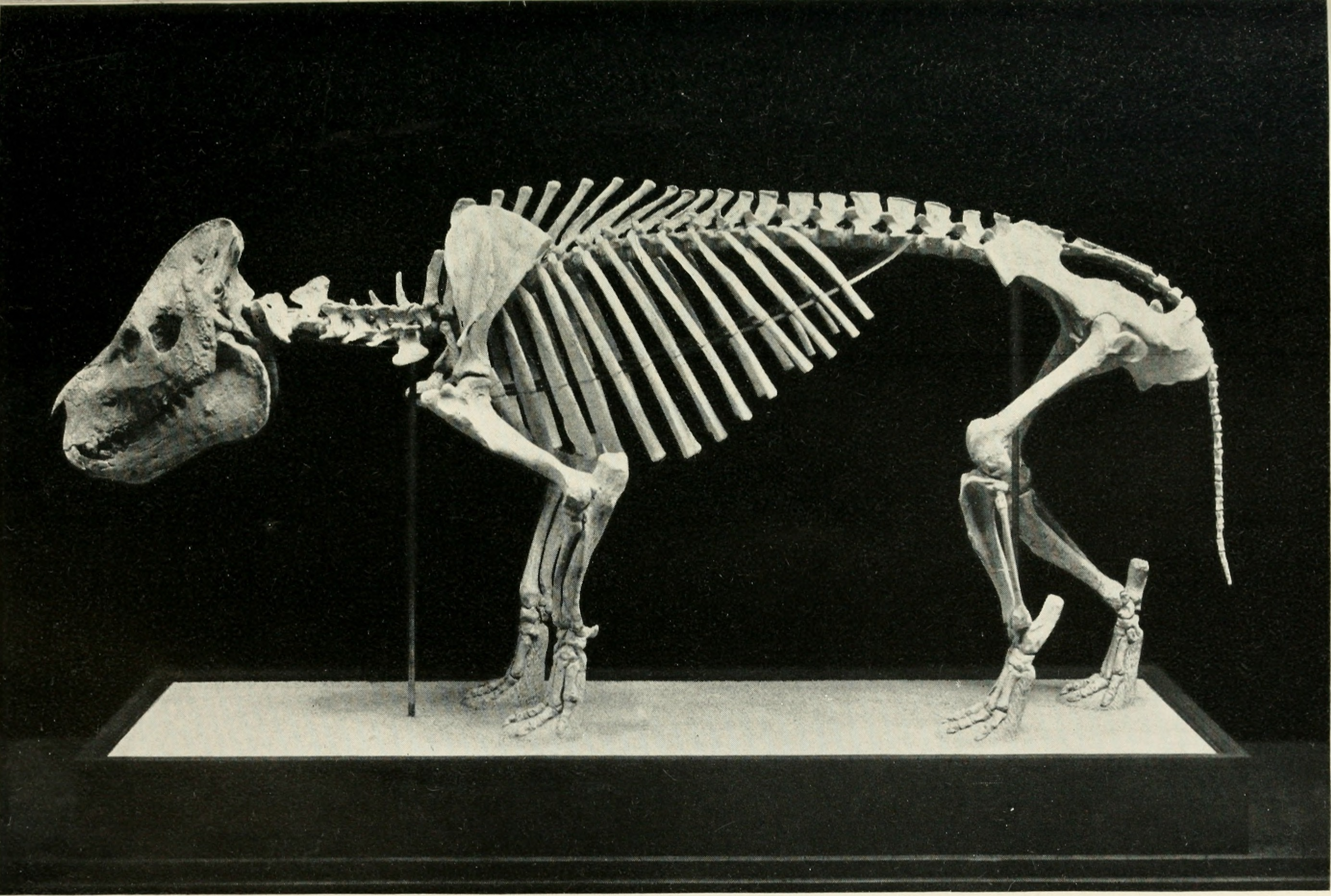 Title: Annual report of the Director to the Board of Trustees for the year ... Identifier: annualreportofdi41fiel Year: 1907-1943 (1900s) Authors: Field Museum of Natural History Subjects: Field Museum of Natural History; Natural history Publisher: Chicago, U. S. A. : Field Museum of Natural History Text Appearing Before Image: ' Text Appearing After Image: o H O z I- X UJ z o I- LU —i Ui